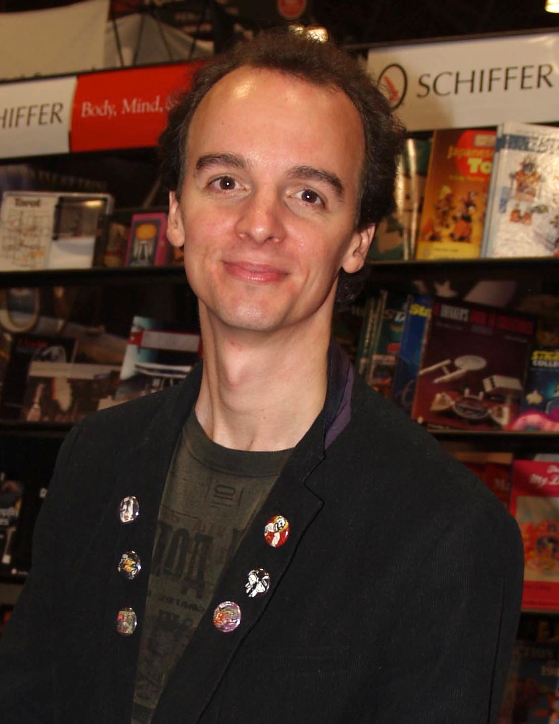 Illustrator Joe Simko on Friday October 11, 2013 at the Jacob K. Javits Convention Center in Manhattan, Day 2 of the 2013 New York Comic Con. This photo was created by Luigi Novi. It is not in the public domain, and use of this file outside of the licensing terms is a copyright violation.